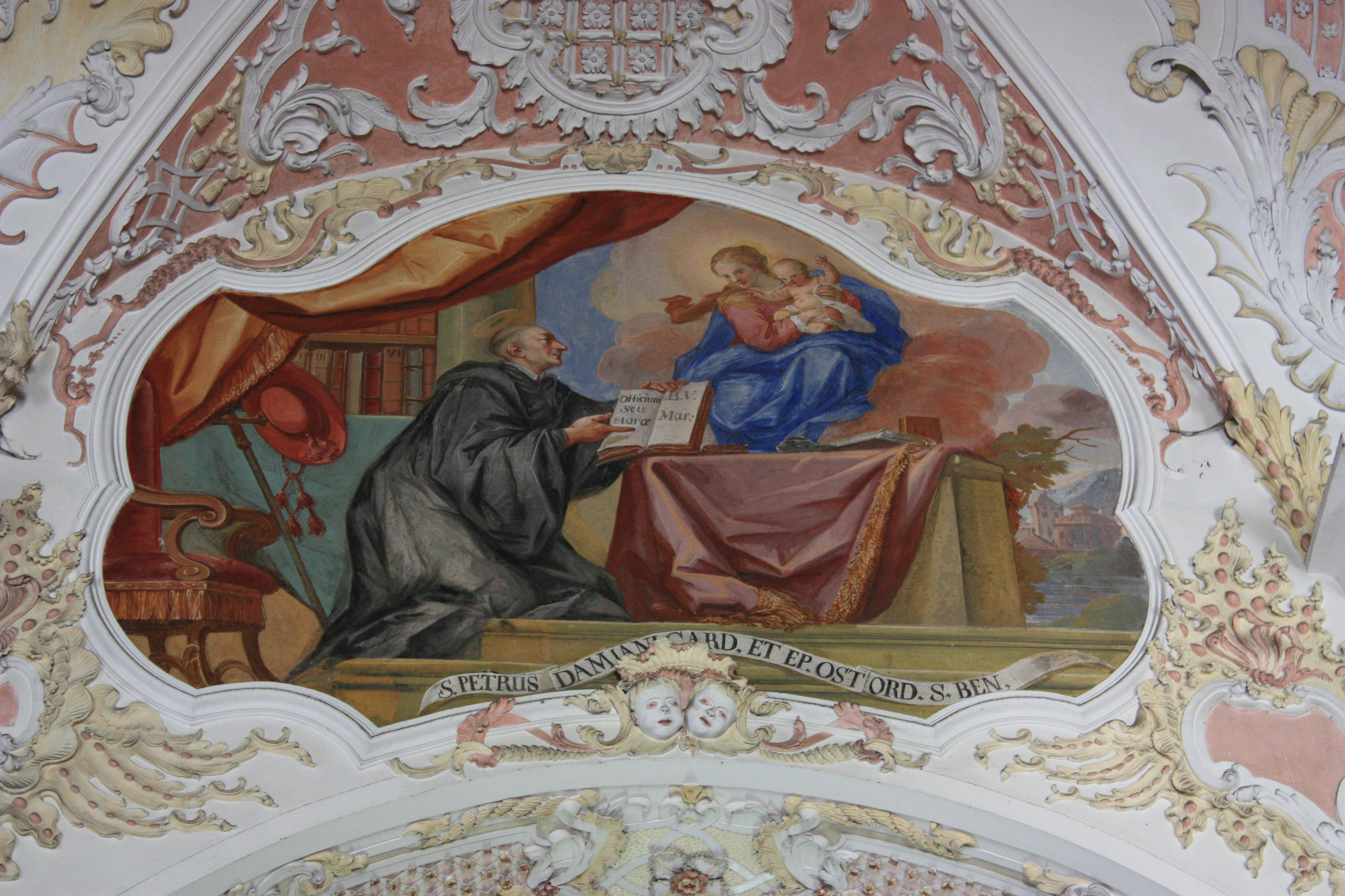 Monastery Ossiach - Celling-painting: Virgin Mary is appearing to Cardinal Petrus Damiani - Painter:Josef Ferdinand Fromiller Community:Ossiach District:Feldkirchen State:Carinthia Country:Austria